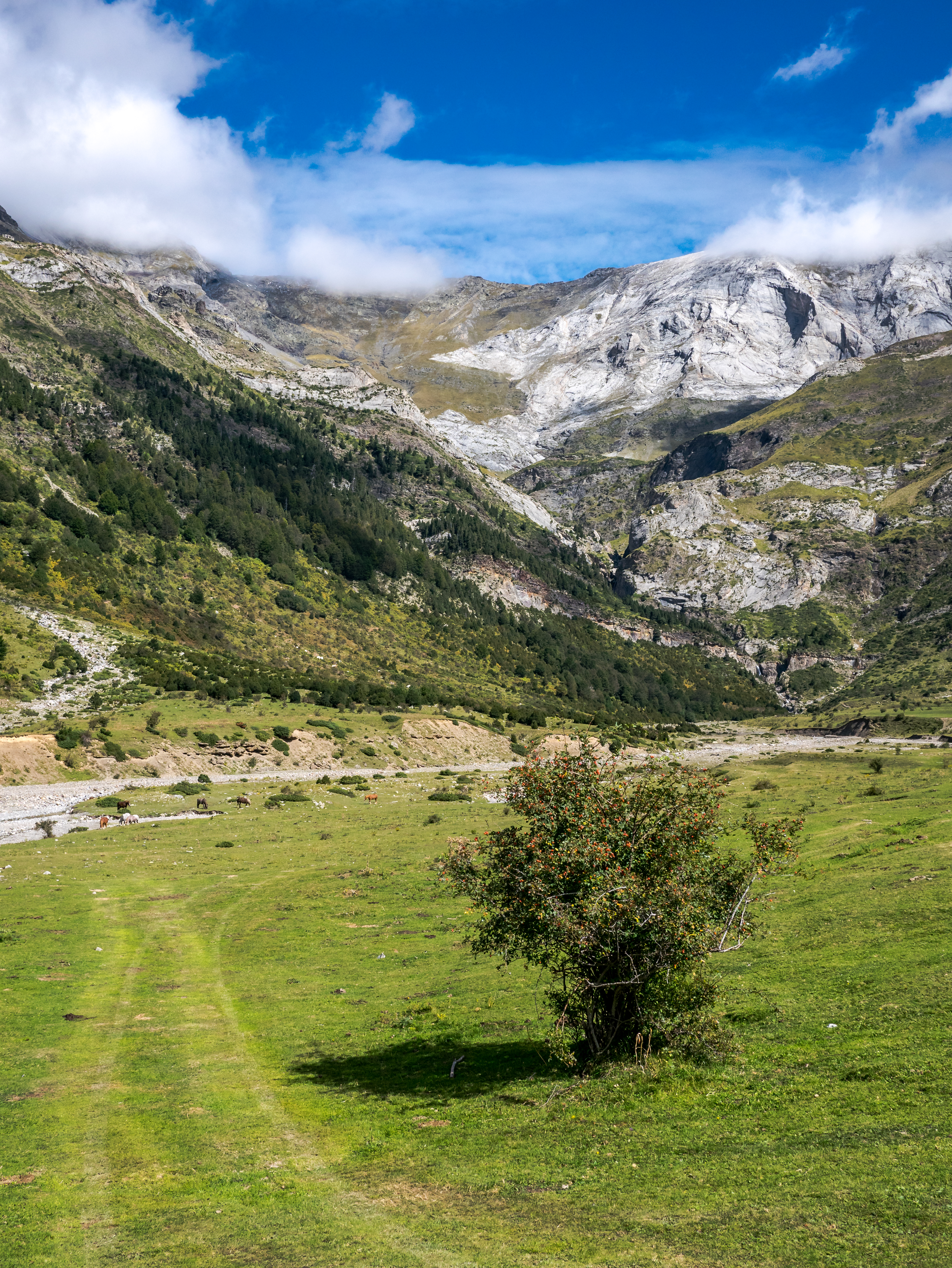 La Larri plains in the Pineta Valley. Bielsa, Sobrarbe, Huesca, Aragon, Spain